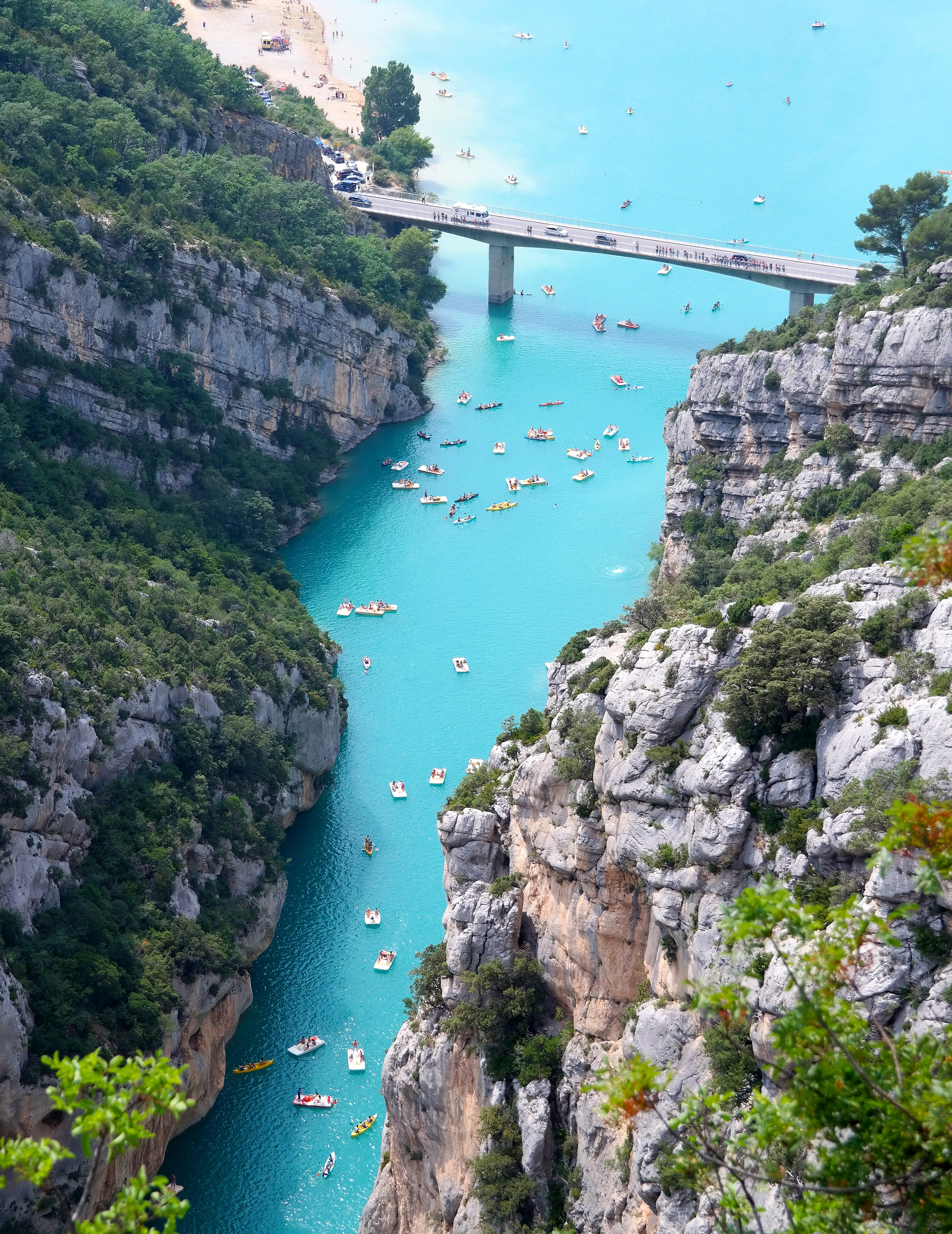 中文（中国大陆）: aerial view of boats on body of water beside mountain in The Gorges du Verdon, France